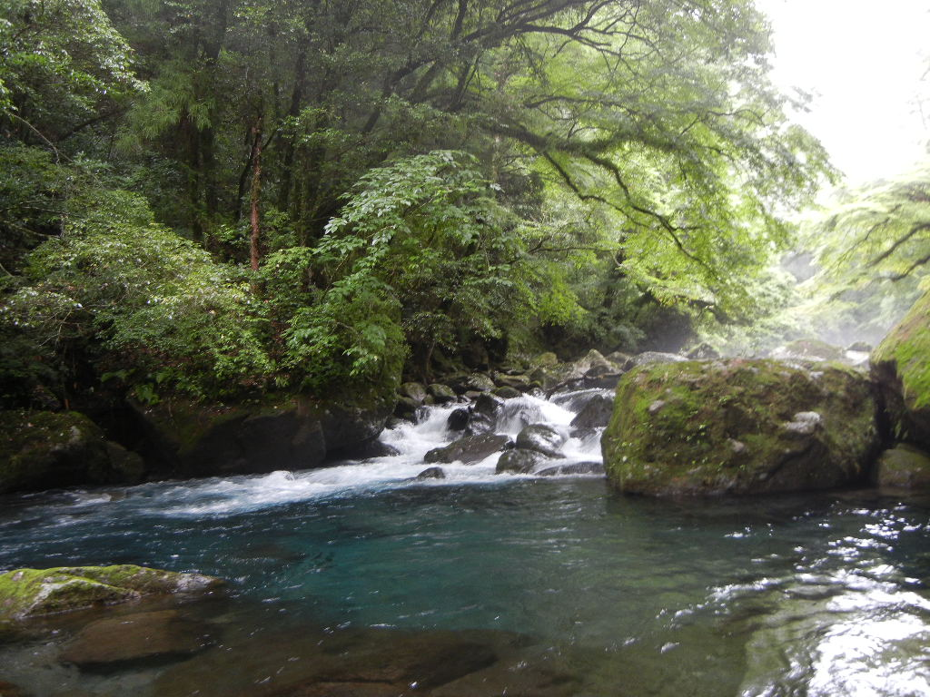 Kikuchi-River-valley. 熊本県菊池市にある「菊池渓谷」, Kikuchi.